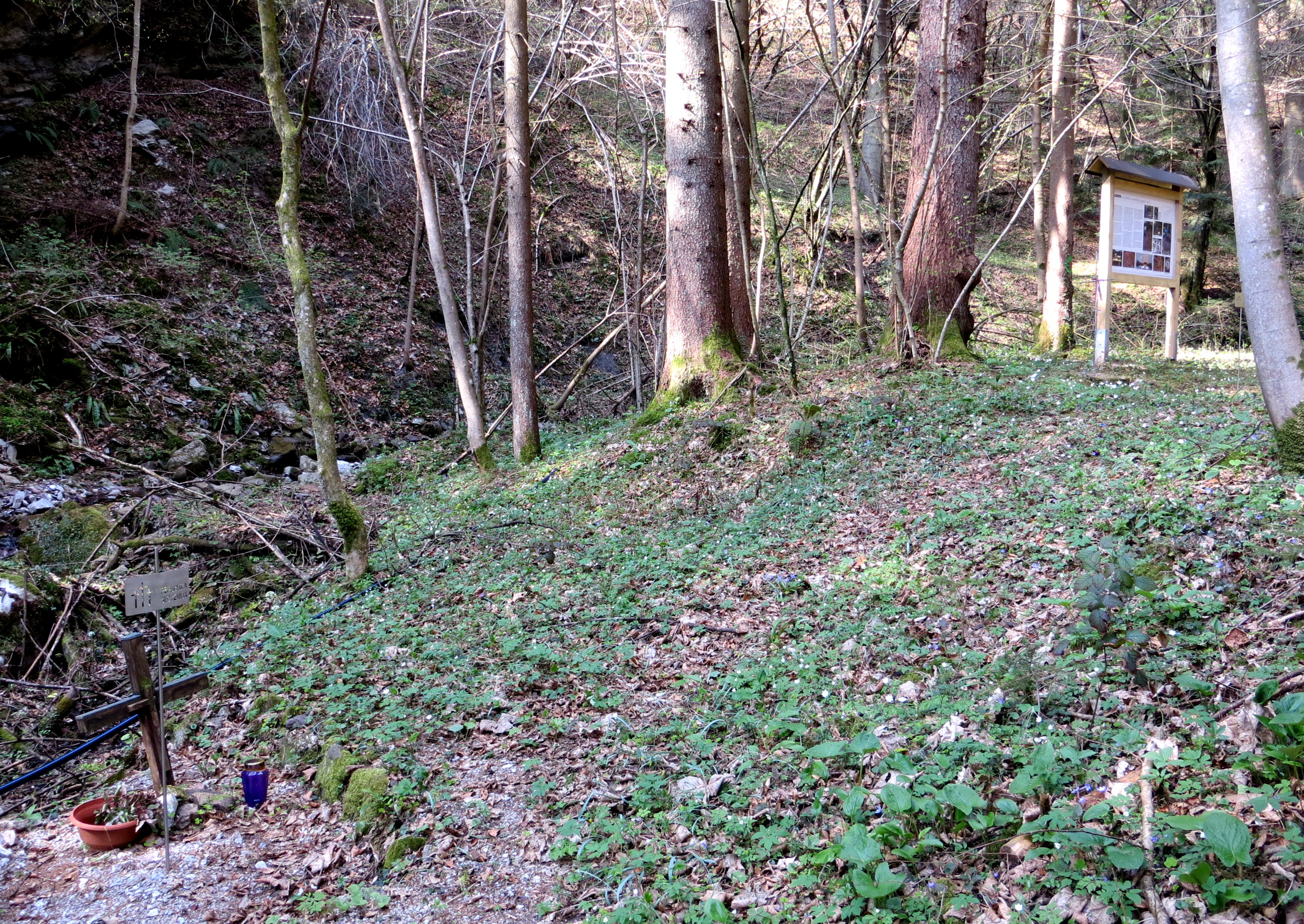 Lovrenc Ravine graves at Gabrovo, Municipality of Škofja Loka, Slovenia